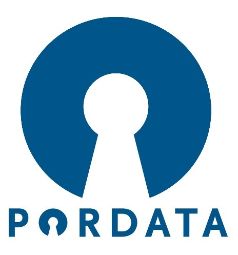 Pordata's Logo